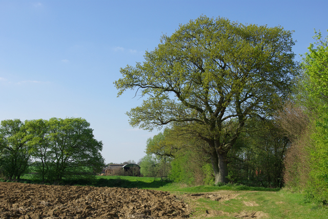 Towards Termitts Farm The footpath approach to the farm from the south.